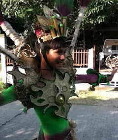 Palaran Festival 2011 Bonawon Street Demo Participant